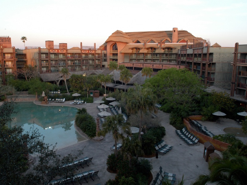 A low resolution photo of the Animal Kingdom Lodge, showing the pool BEFORE its most recent refurbishment in 2018.